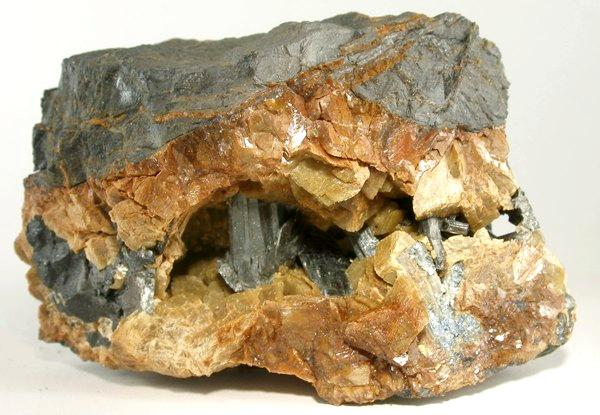 Chalcostibite Locality: Saint-Pons, Ubaye valley, Alpes-de-Haute-Provence, Provence-Alpes-Côte d'Azur, France (Locality at ) Size: 7.8 x 5.1 x 4.4 cm. Chalcostibite is a rare copper, antimony sulfosalt. This fine specimen from a classic French locale features a superb, cave-like vug with highly lustrous, gray metallic blades in a contrasting, iron-stained quartz matrix. The large columnar blade in the vug is 1.5 cm. A massive vein of chalcostibite caps this very showy piece and chalcostibite is shot through both sides. This is very rich ore. Seldom available in this quality from this locale, and it comes from a classic find of the 1980s.